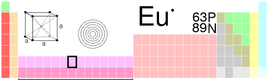 This image was copied from . The original description was